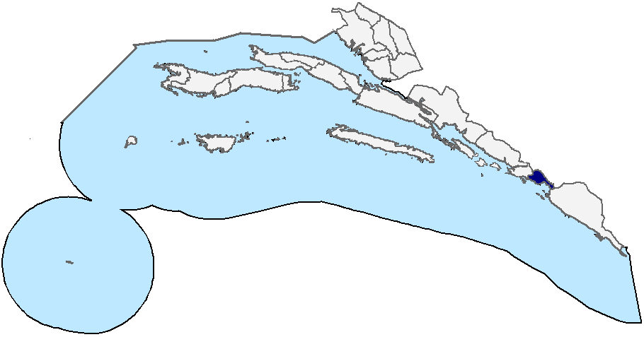 map of Župa Dubrovačka municipality within Dubrovnik-Neretva County.